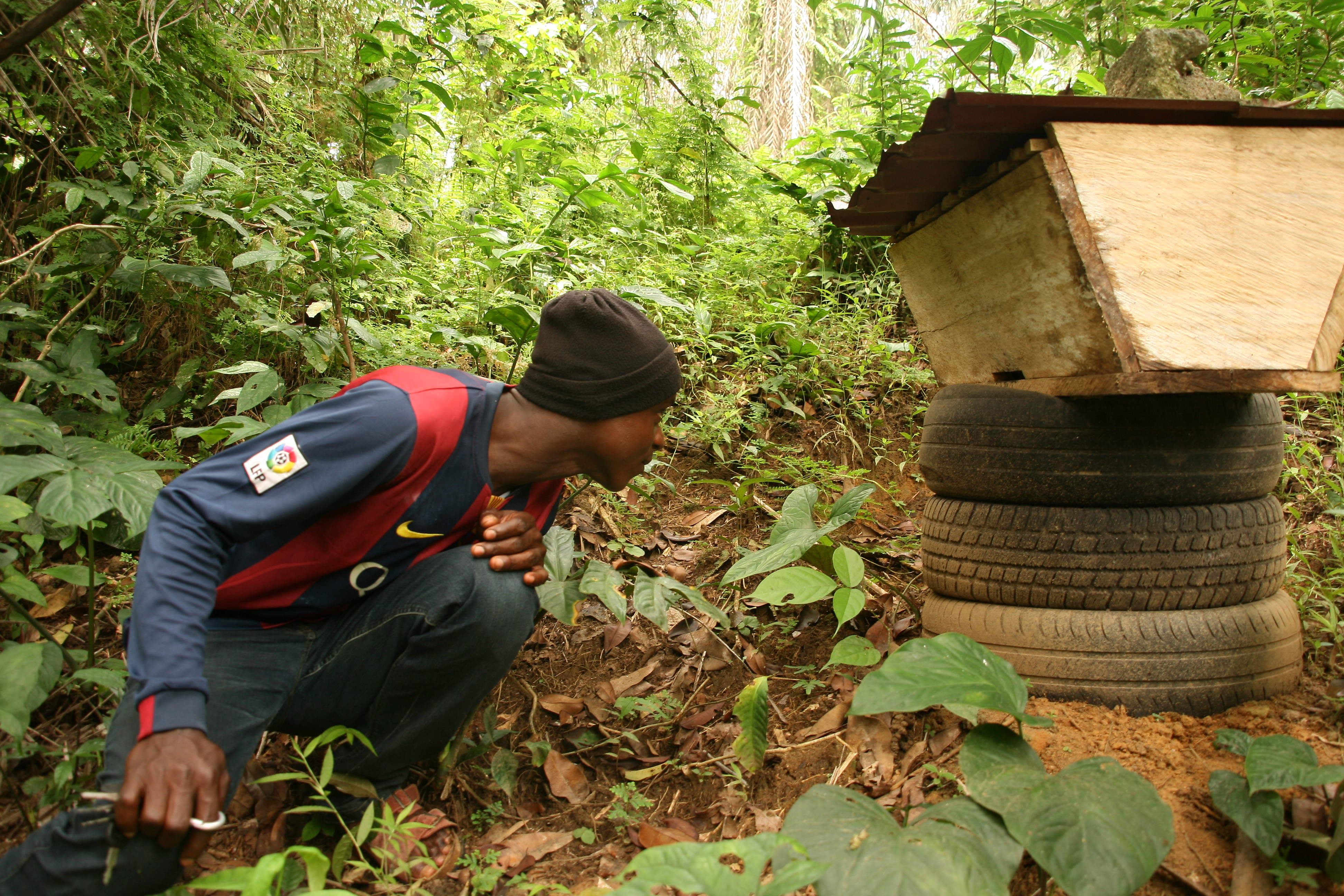 Beekeeping in Tayap (Cameroon)